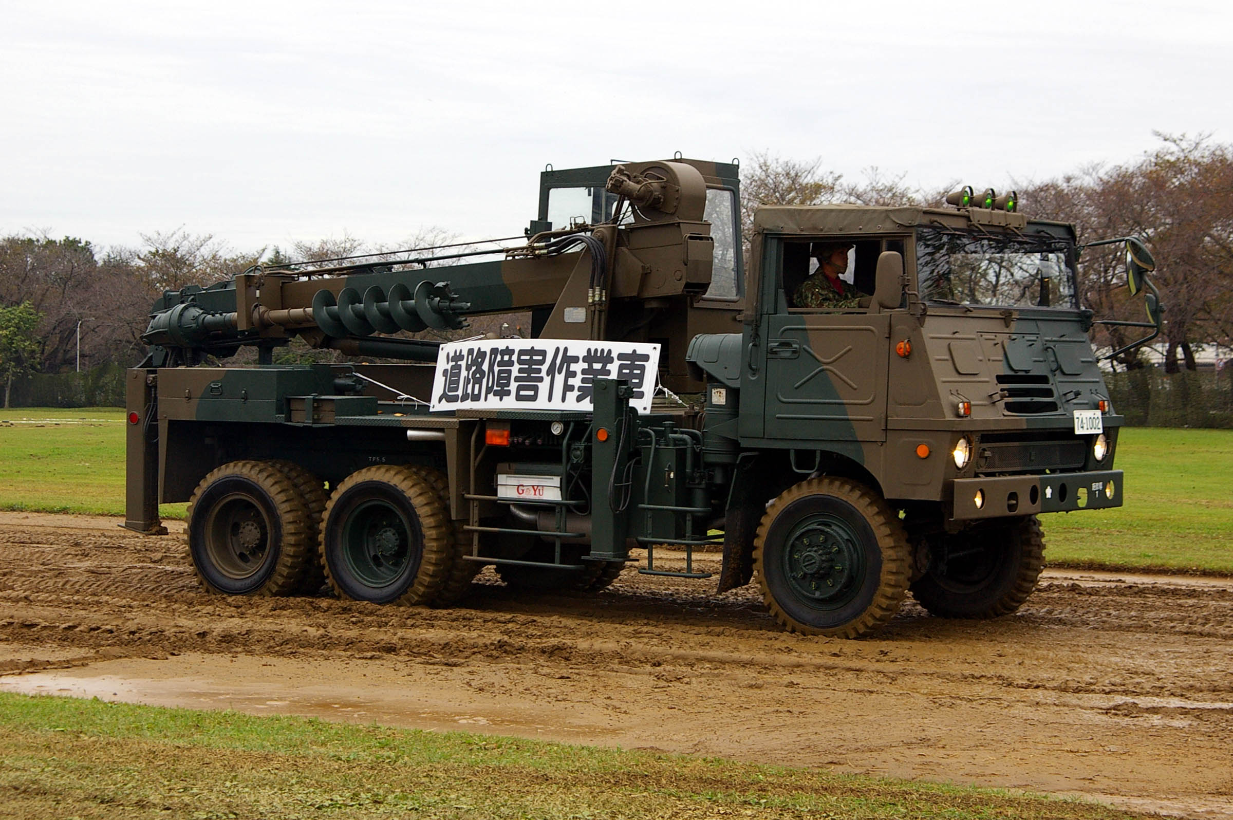 JGSDF Engineering vehicle (road_boring).Taken by Los688,at Camp Katsuta,25-Oct-2008.PD-self